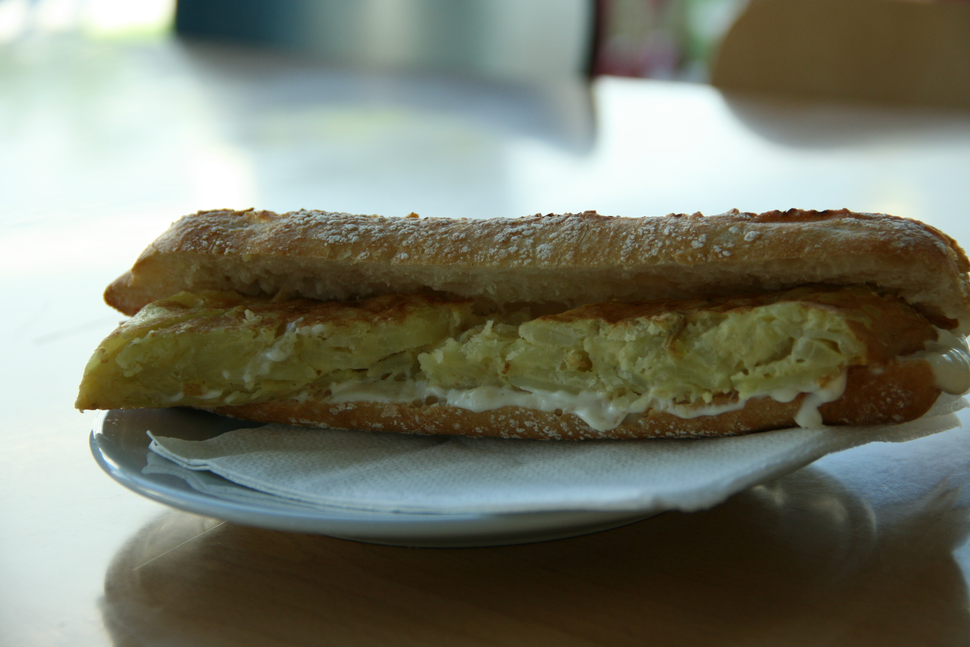 Bocadillo prepared with spanish omelette covered with alioli.